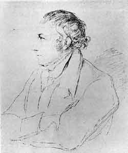 Scanned form book owned by me published 1884. author Sebastian Hensel d. c. 1900.